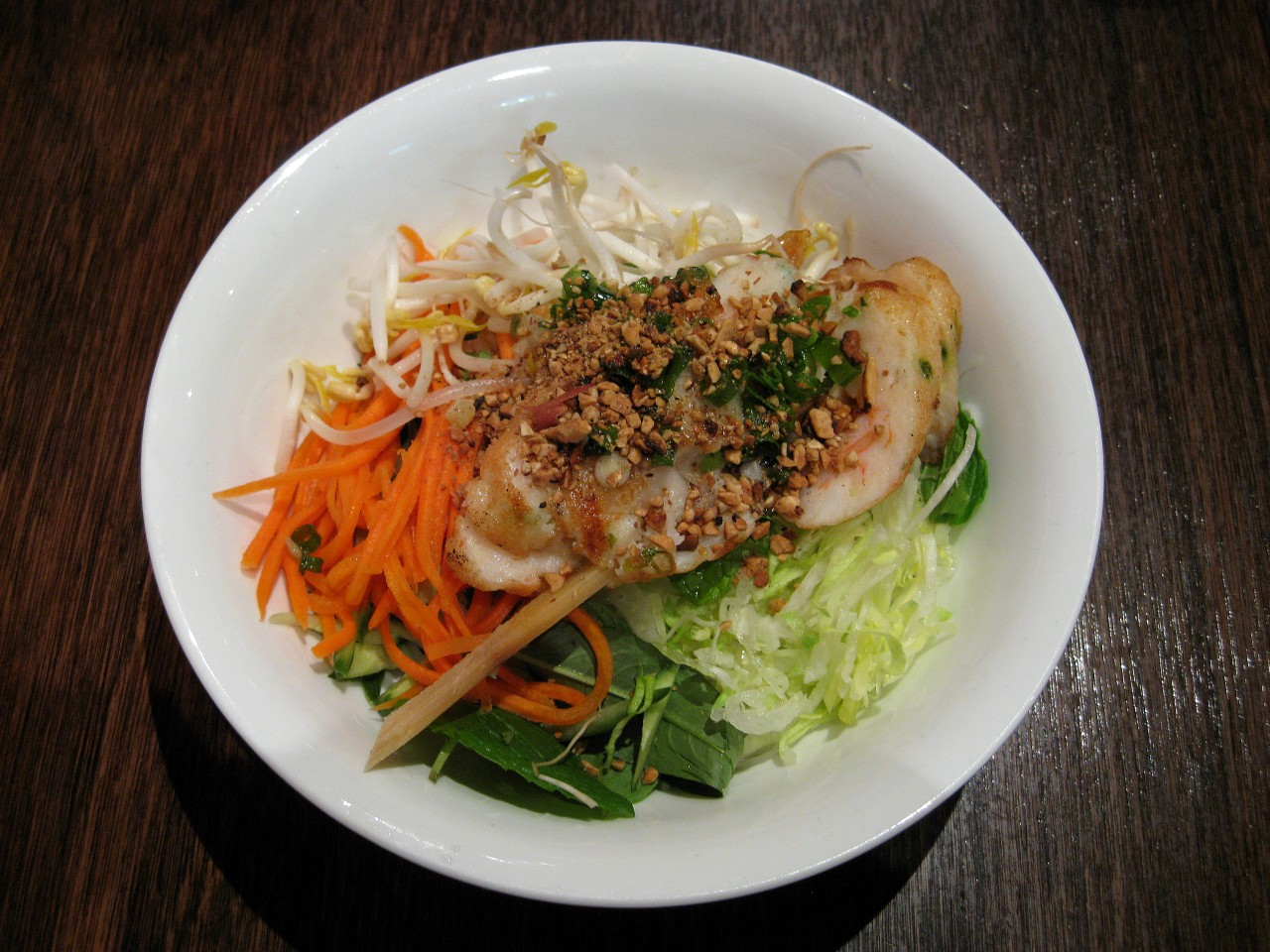 Vietnamese sugarcane prawn (bún chạo tôm) and rice vermicelli served with bean sprouts, shredded carrot and lettuce, mint and crushed peanuts.